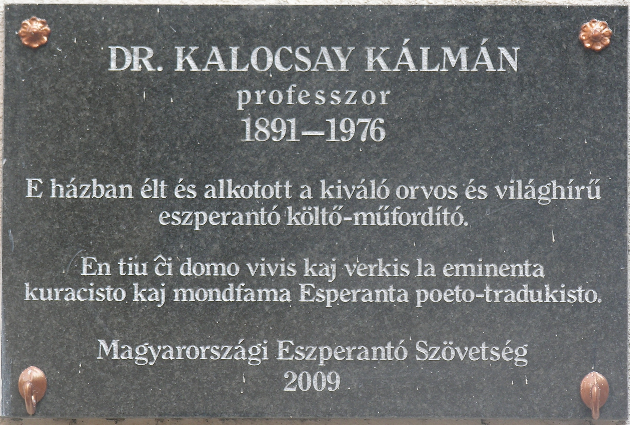 Commemorative plaque of Kálmán Kalocsay (Budapest District II, Nyúl utca No4)